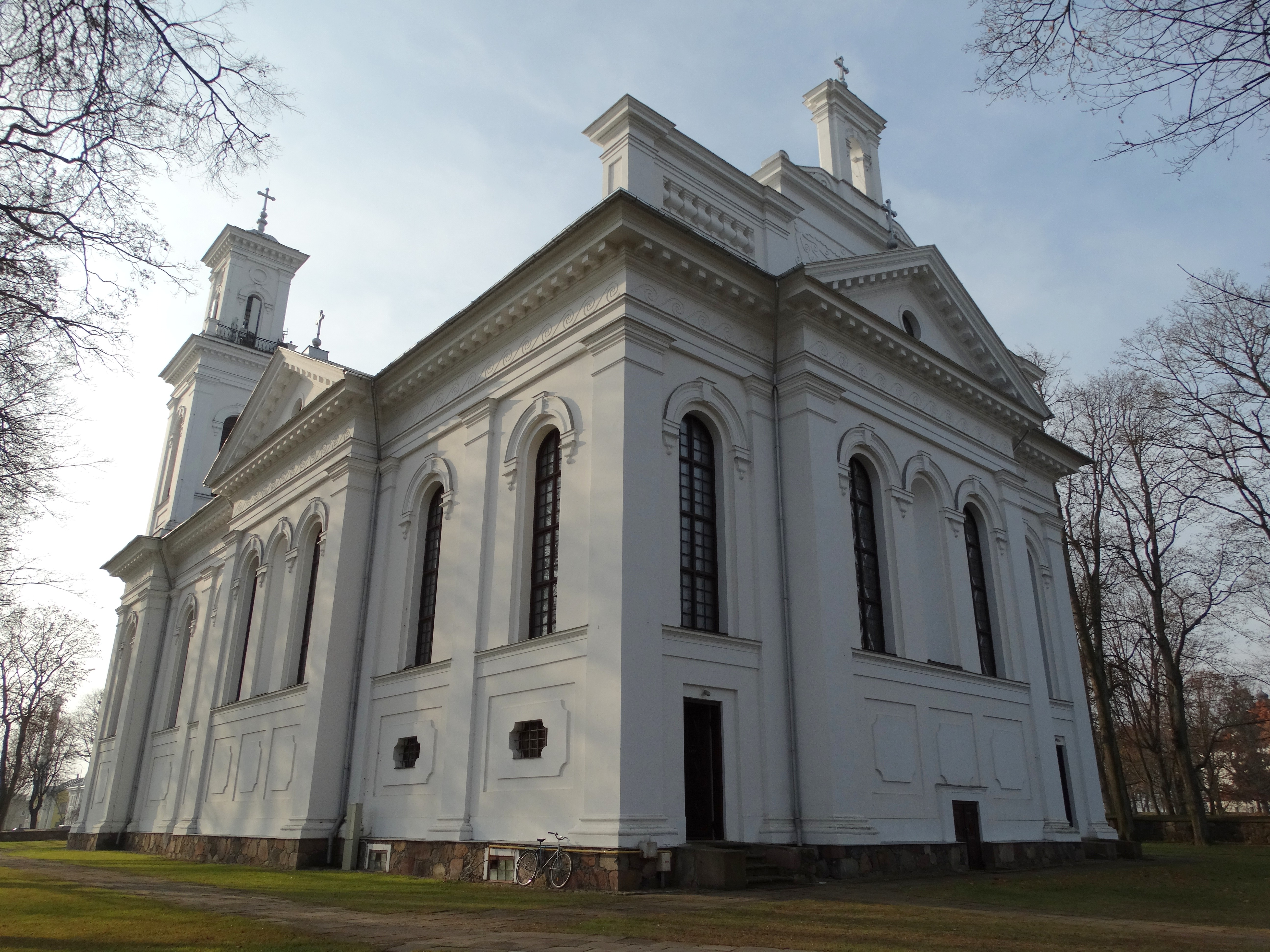 Roman Catholic Church (backside view), Biržai, Lithuania